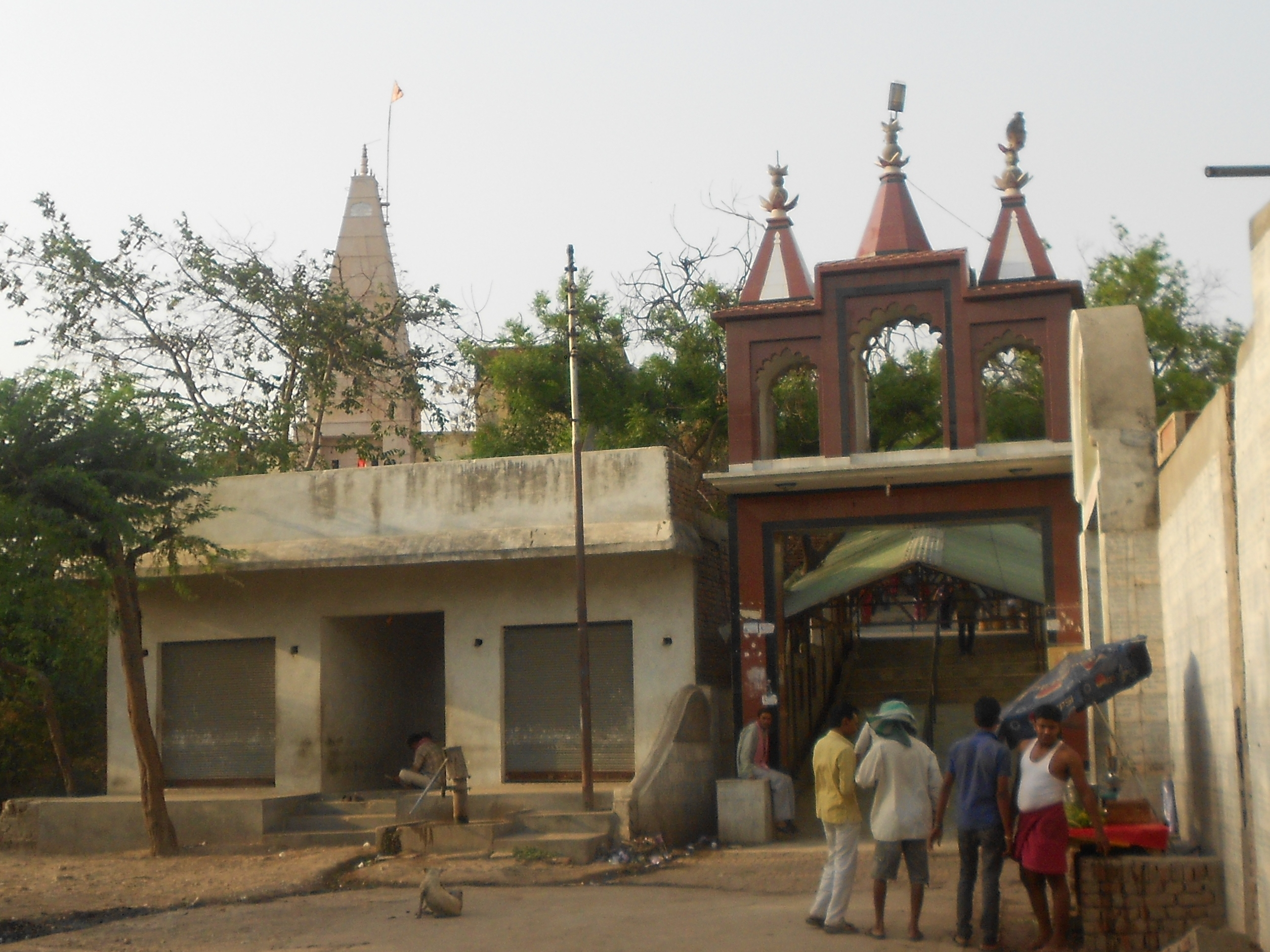 A temple in gokul 27°30′22″N 77°40′50″E / 27.50613°N 77.68055°E nandalaya with 84 pillars